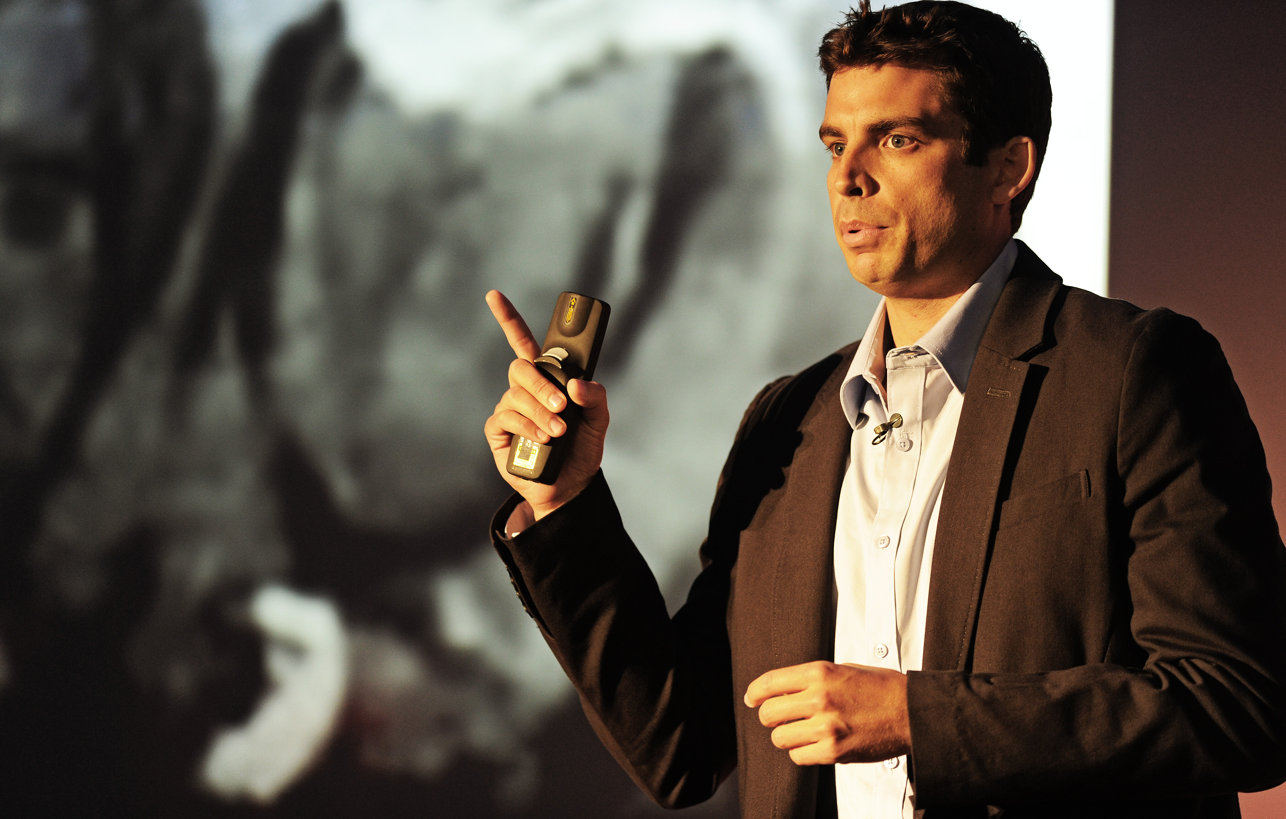 William McNulty, vice president of Team Rubicon, speaks to the TEDx audience at Scott Air Force Base, Ill. May 30 about the importance of those select few people who go against the grain to accomplish the broader goal. Prior to Team Rubicon, McNulty was a civilian intelligence professional in Washington DC. He has worked in support of the Defense Intelligence Agency, the National Security Council’s Iraq Threat Finance Cell, and the Under Secretary of Defense for Intelligence. (U.S. Air Force photo/ Staff Sgt. Ryan Crane)